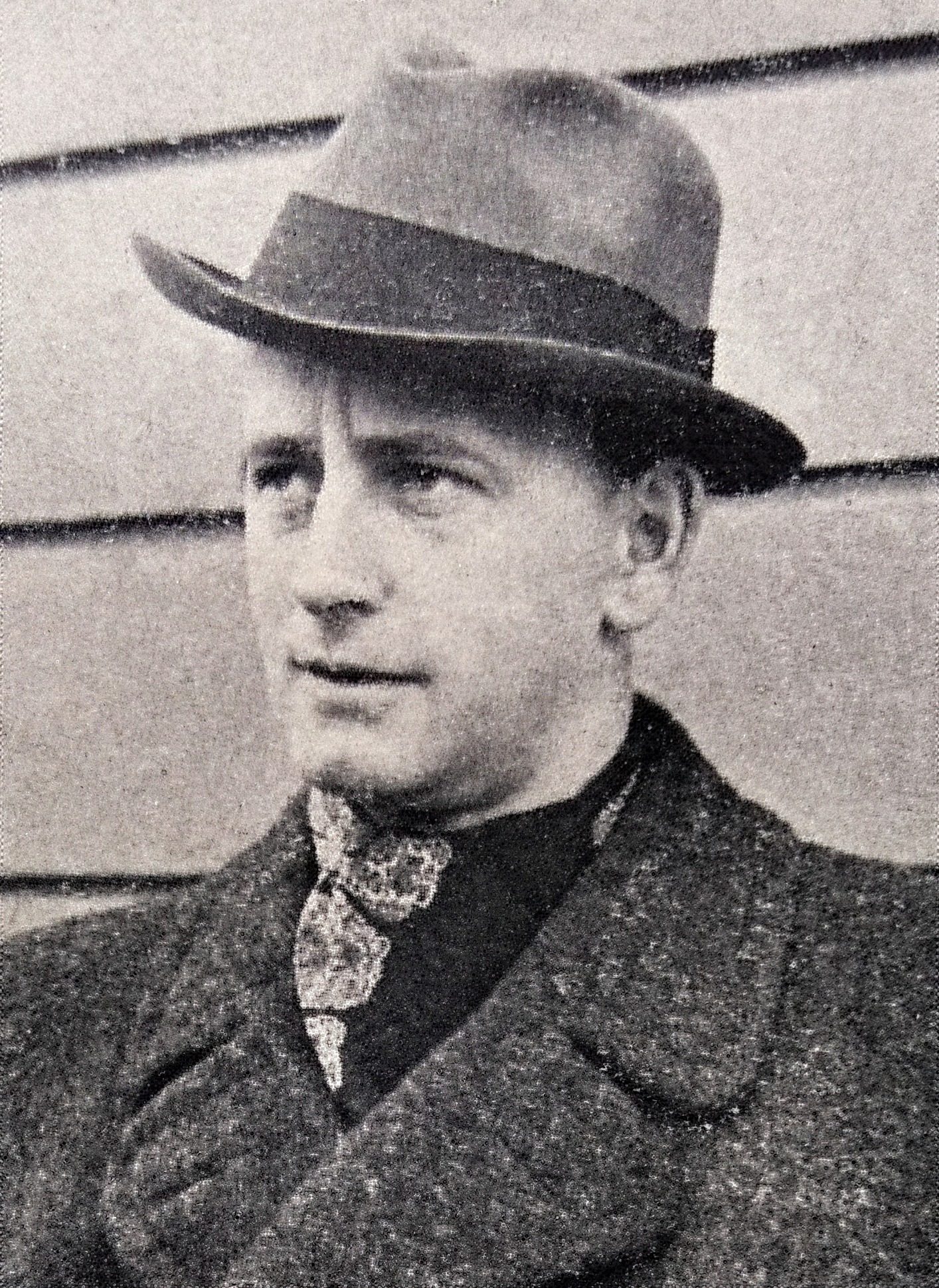 Miloš Nedbal, Czech actor